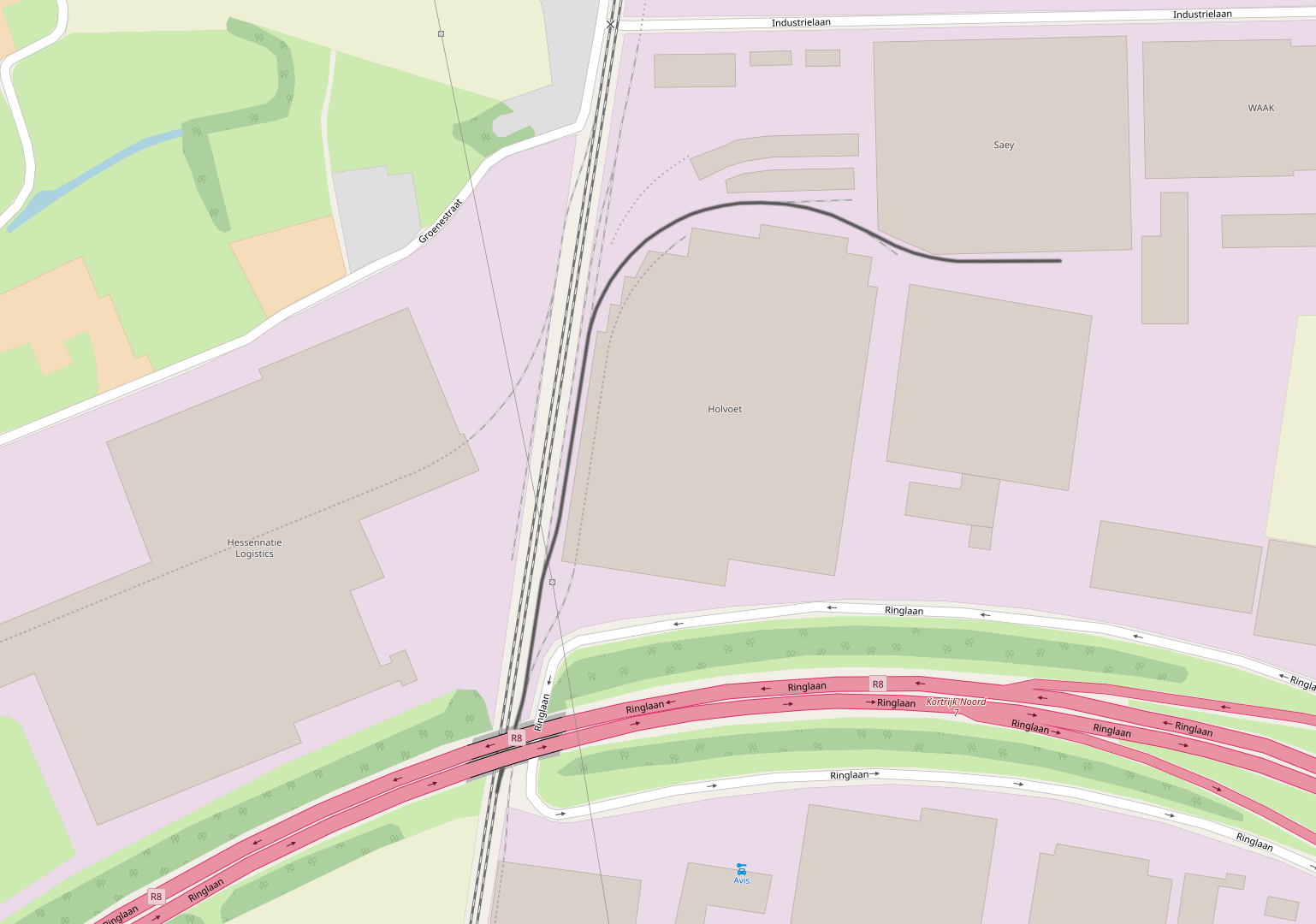 Belgian Railway Line 272, Y Heule - Kuurne